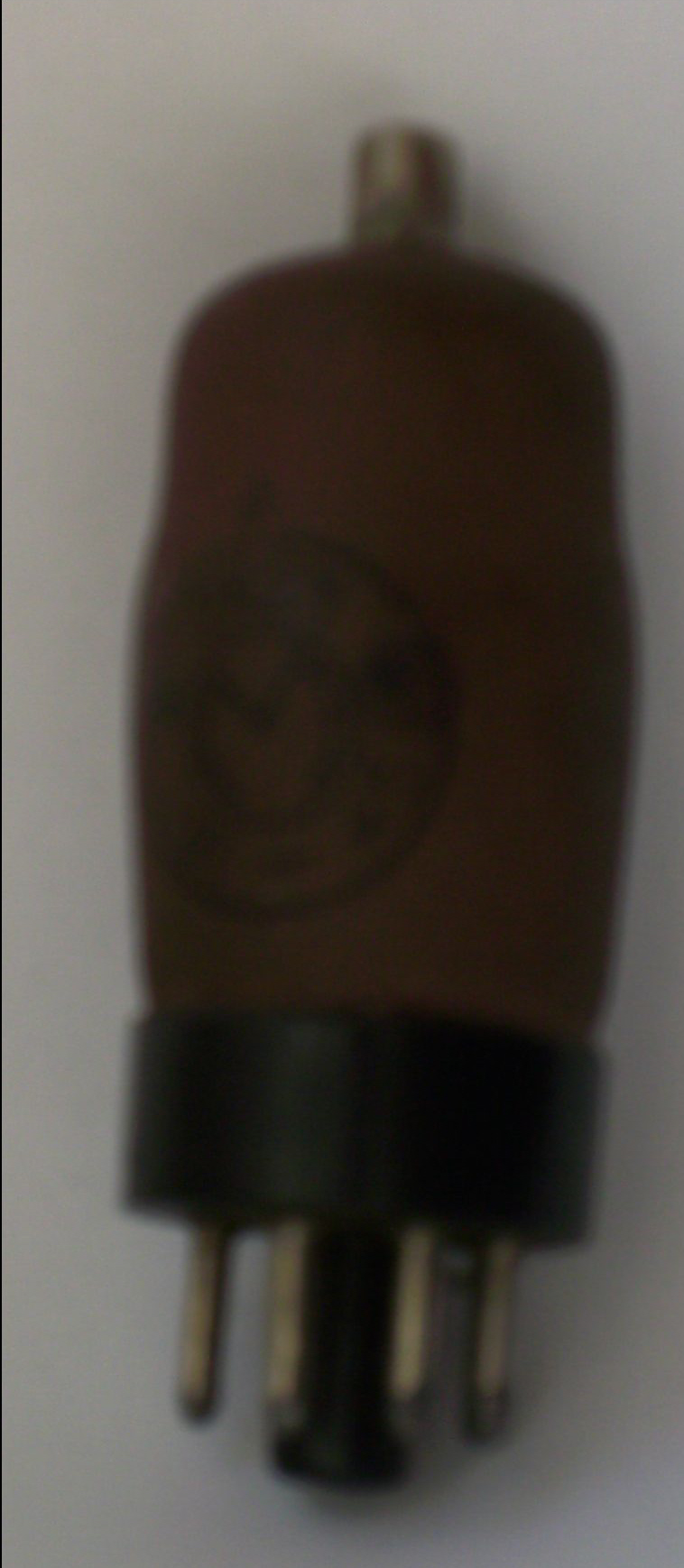 Soviet pentode 2K2M